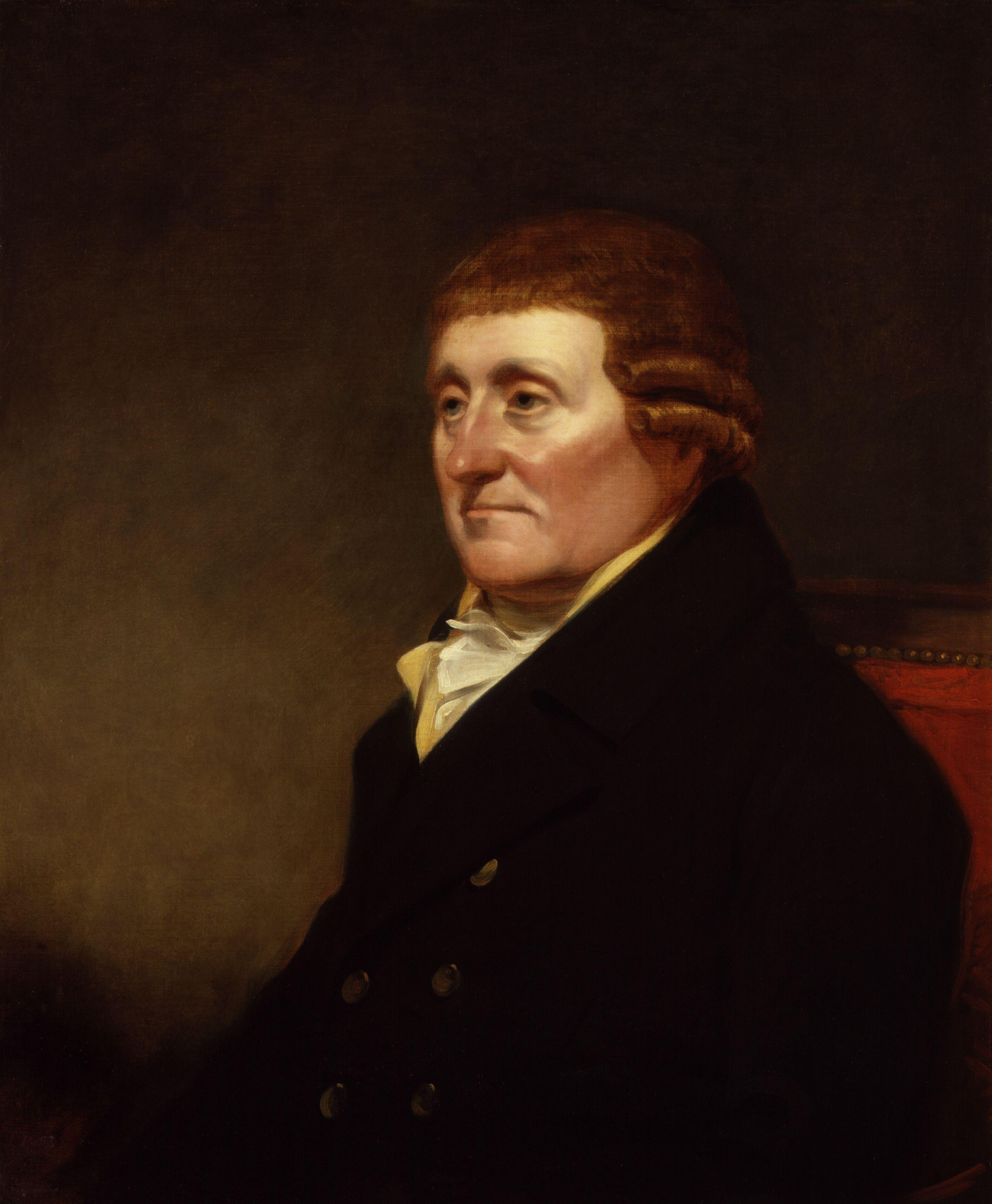 George Children, by Archer James Oliver (died 1842), given to the National Portrait Gallery, London in 1977. All images in this batch have been confirmed as author died before 1939 according to the official death date listed by the NPG.